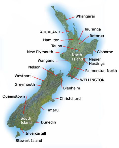 Topographic map of New Zealand with islands and main population centres labelled